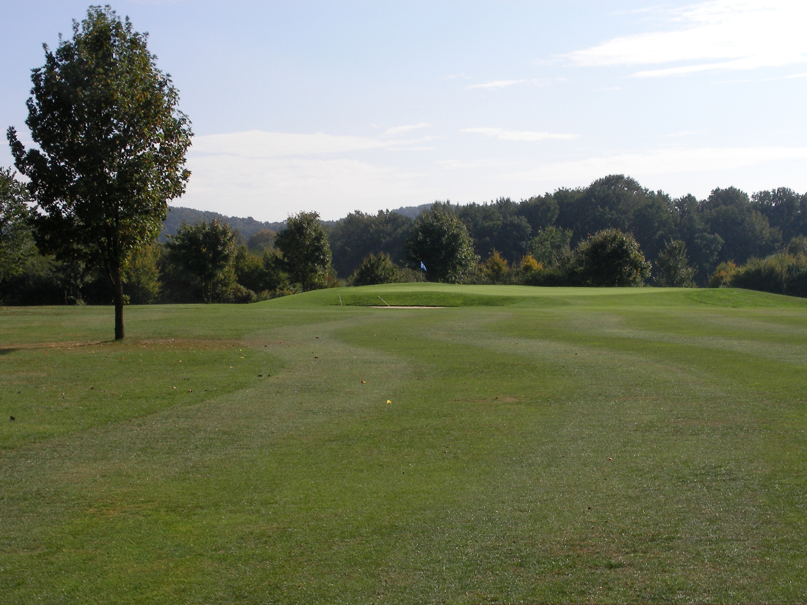 10th Green, Golf Course Radeberg-Ullersdorf near Dresden